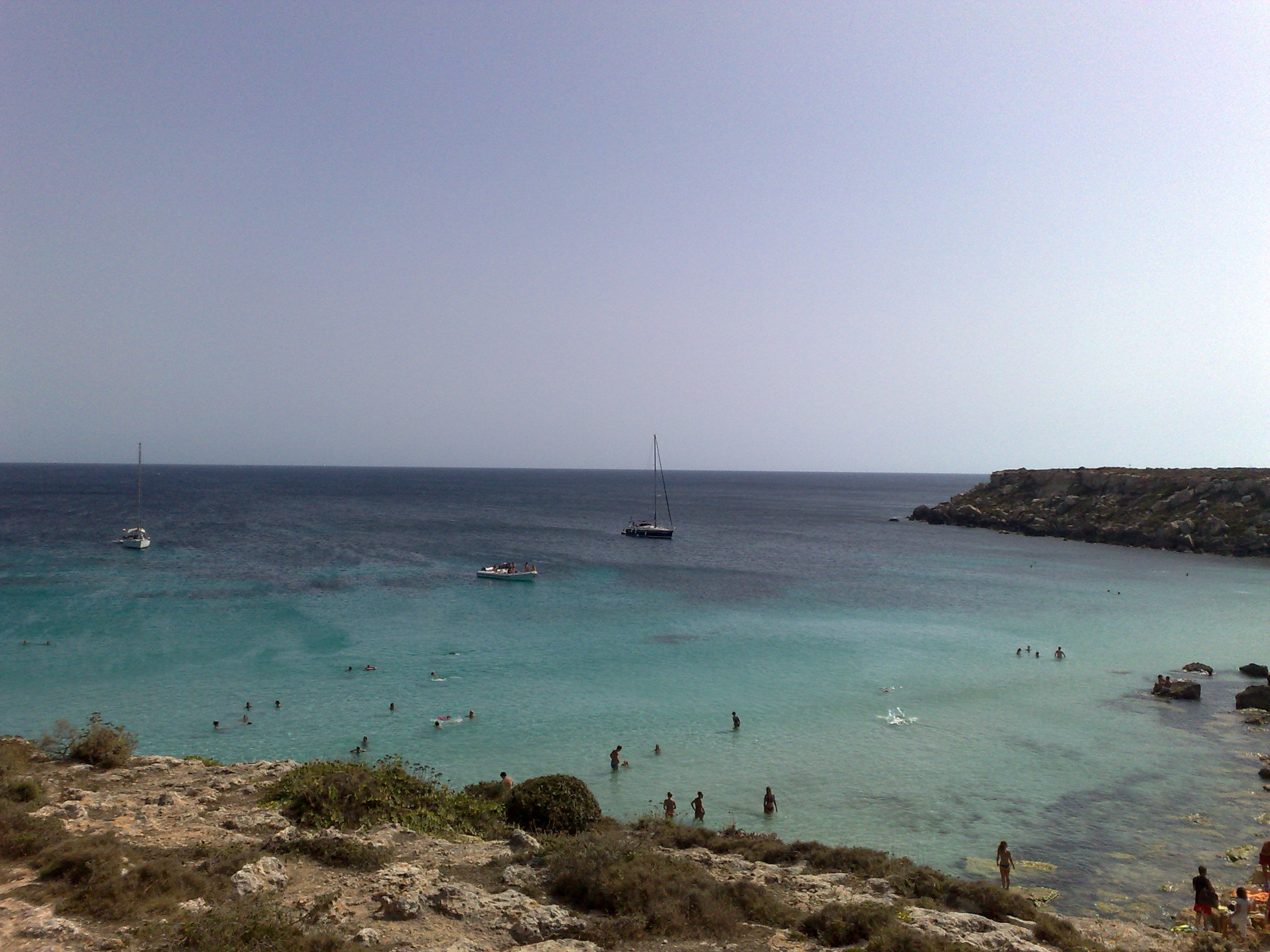 Cala Azzurra in Favignana